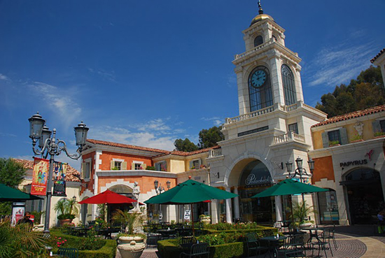 World's largest Rolex clock, in the clock tower at The Commons at Calabasas, Southern California.